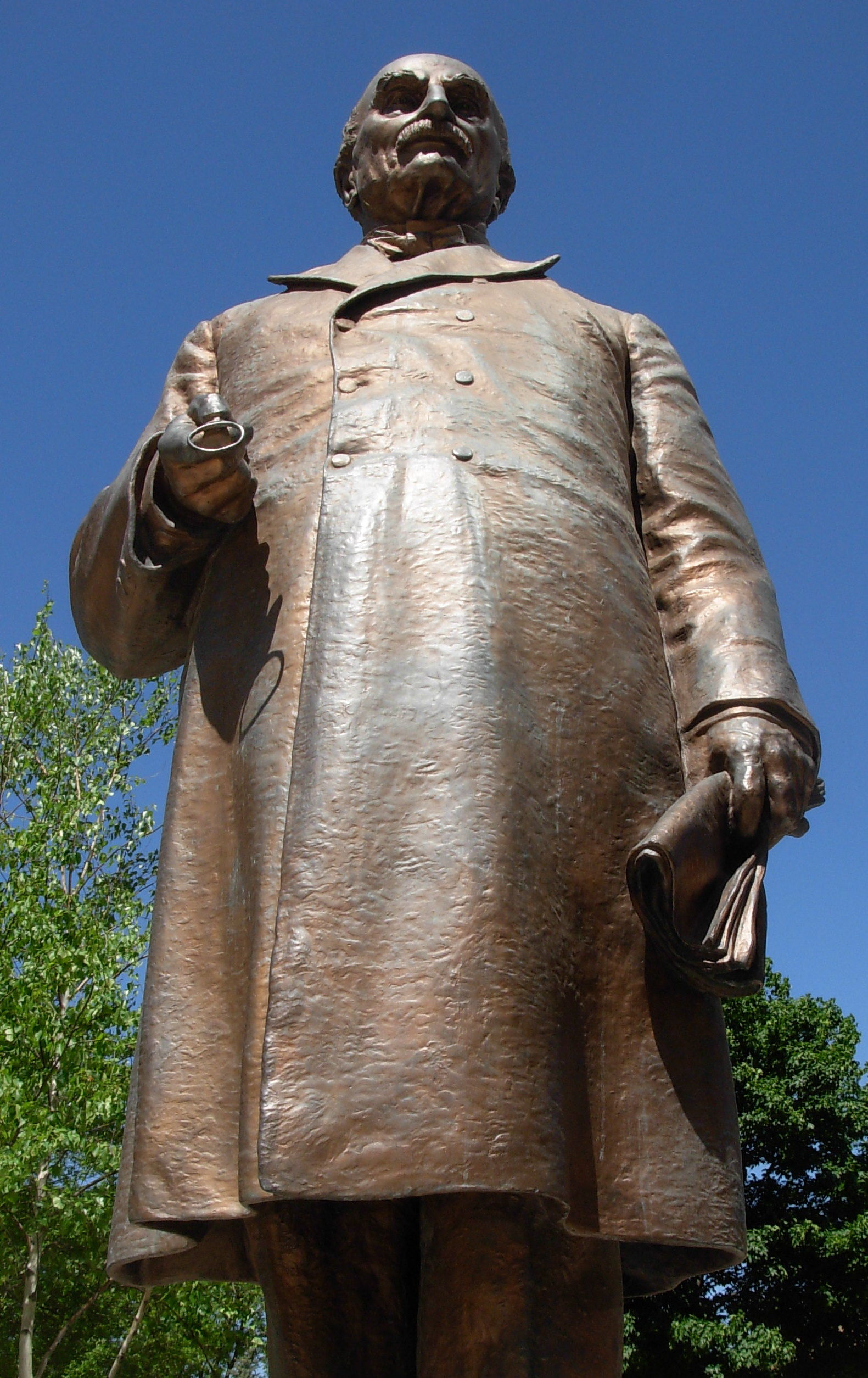 1911 bronze statue of Doctor William Worrall Mayo near the main buildings of the Mayo Clinic in Rochester, Minnesota